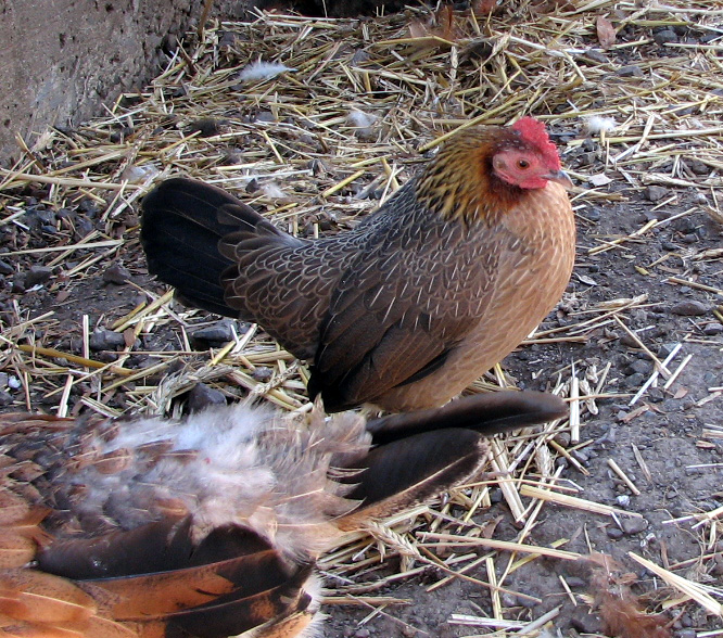 An Old English Game bantam hen.